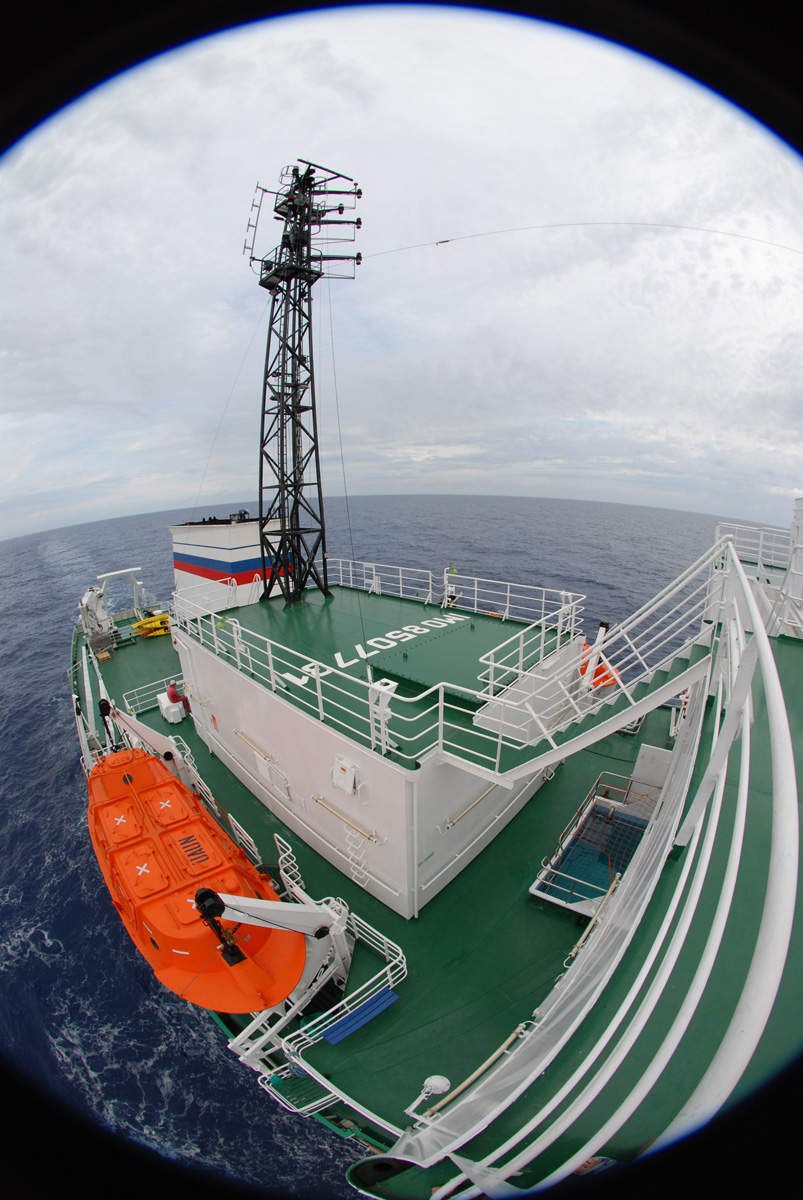 RV Akademik Ioffe in Atlantica IMO Number: 8507731 MMSI Number: 273413400 Callsign: UAUN Length: 117 m Beam: 18 m